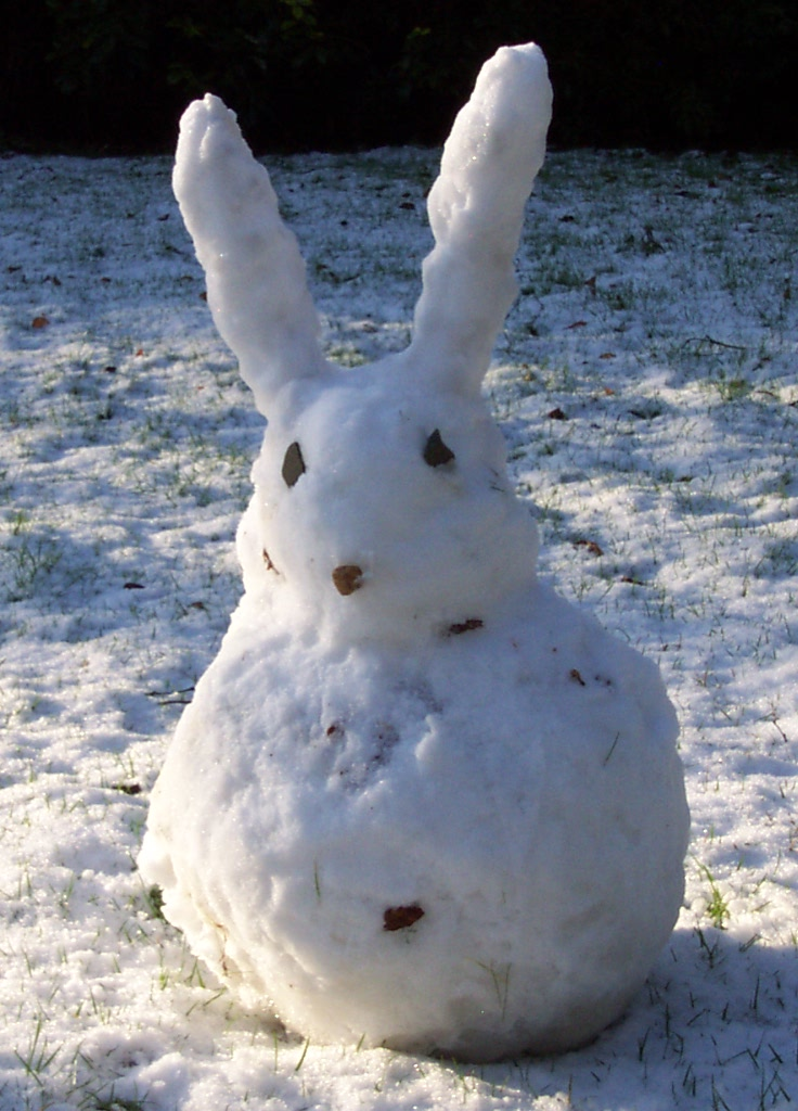 Photograph of a snowman-variant: a snowrabbit. Taken in a private garden in Oxfordshire, England on 24th January 2007.